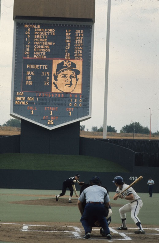 Collection Name: Division of Tourism Collection Photographer/Studio: Unknown Description: View of scoreboard, pitcher and home plate at Royals Stadium (now Kauffman Stadium) in Kansas City, MO. Batter is Tom Poquette. Coverage: United States - Missouri - Jackson - Kansas City Date: Not determined Rights: Copyright is in the public domain. Credit: Courtesy of Missouri State Archives Image Number: Tourism(B)_014-02788 Institution: Missouri State Archives